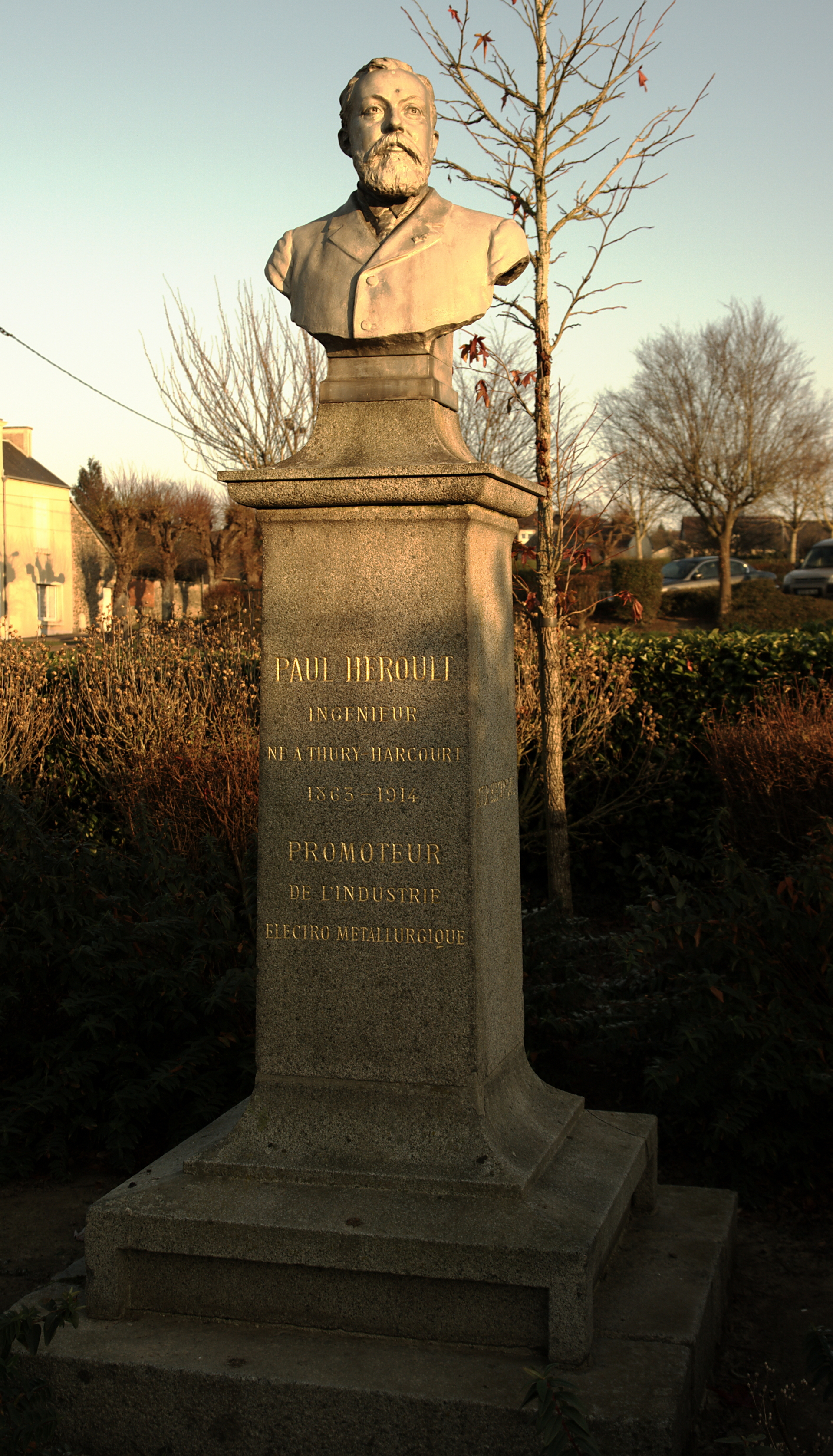 In Thury-Harcourt, the engineer Paul Héroult's chest.